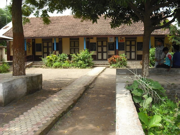 Vachhavad9